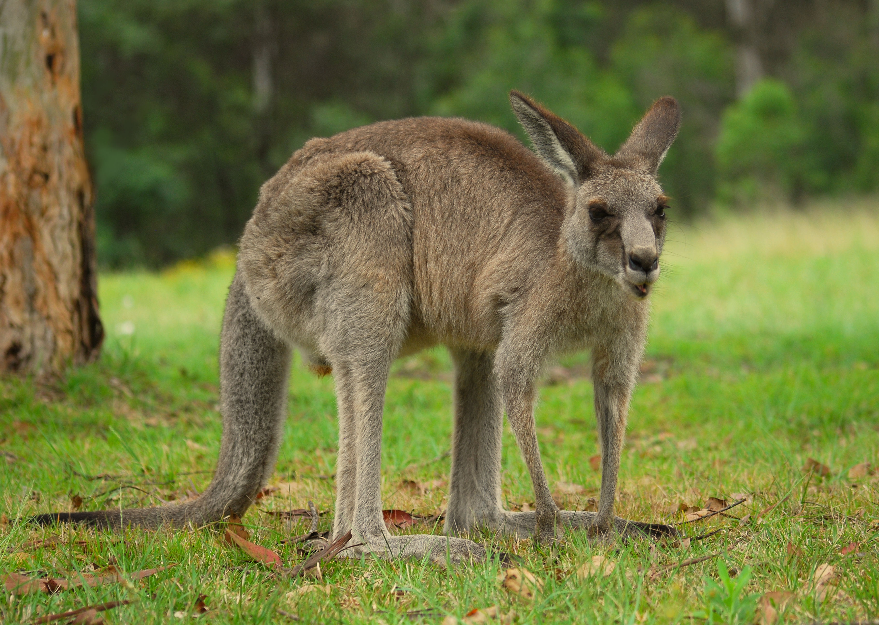 Macropus rufus, female in conservation reserve, Blue Mountains, Australia